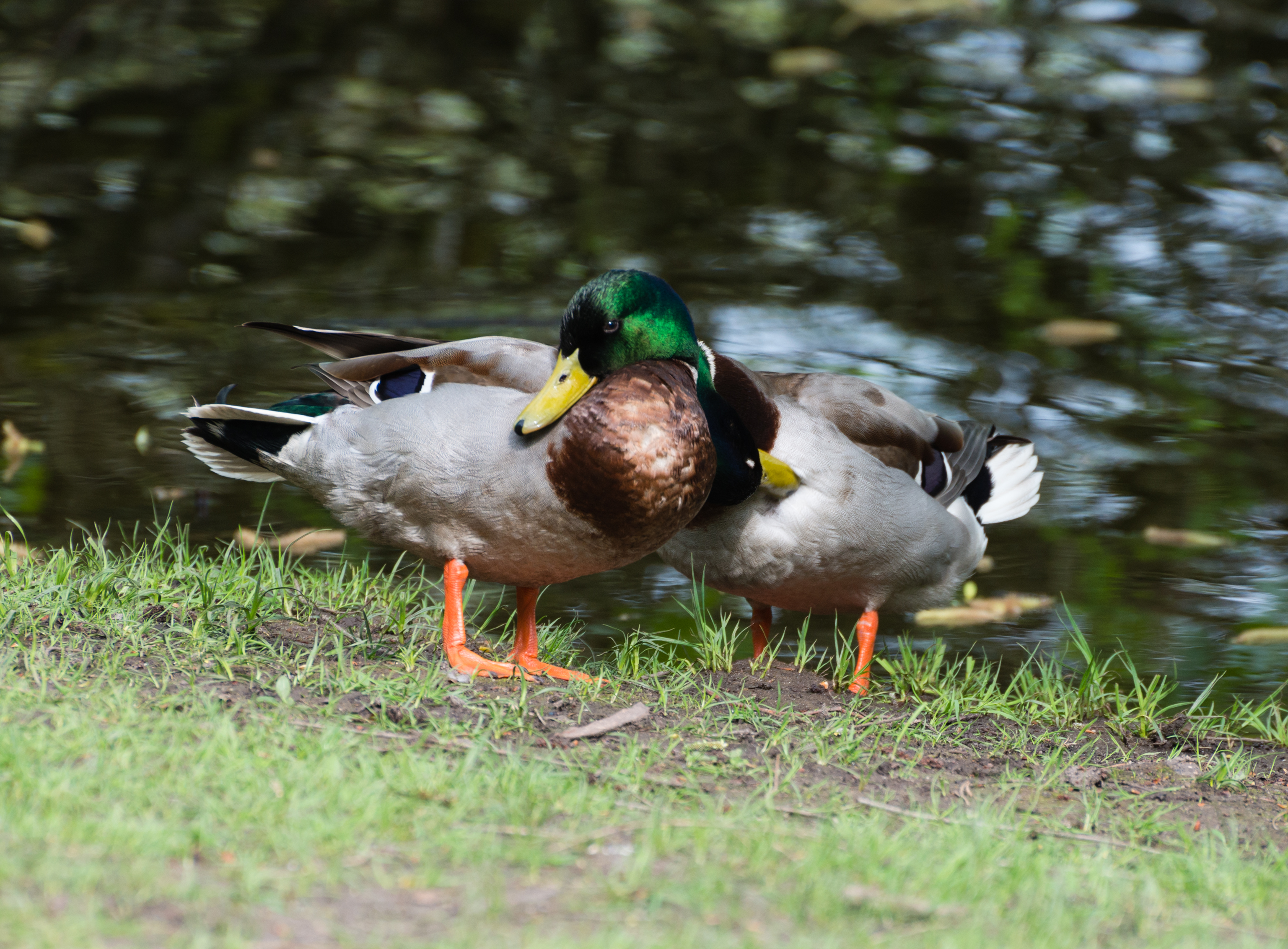 Male mallard ducks, Nature reserve Moenchbruch, Hesse, Germany. At the photo location, there was a group of four male Mallards loosely hanging around together and this male couple. While the ducks in the loose group kept some distance among each other and occasionally separated, the couple shown on this photo behaved like a heterosexual Mallard duck couple in a way that they always kept very close together and remained separated from the other group. When they moved, one duck of the couple was always very closely following the other one and when they didn't move they frequently established body contact as shown on the set of photos above and below.